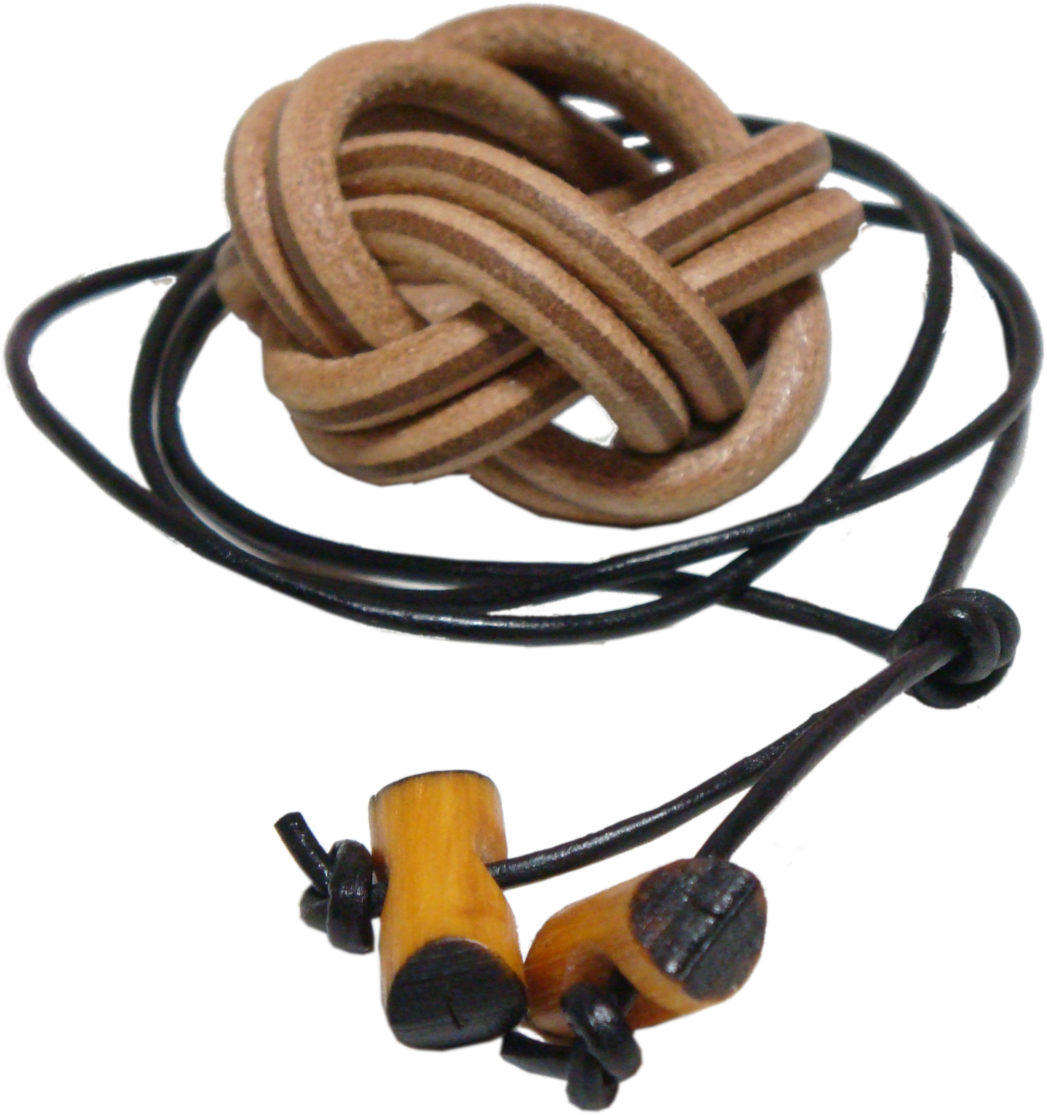 (Japanese Wood Badge and woggle, Takarazuka, Hyogo 2007/06/10)